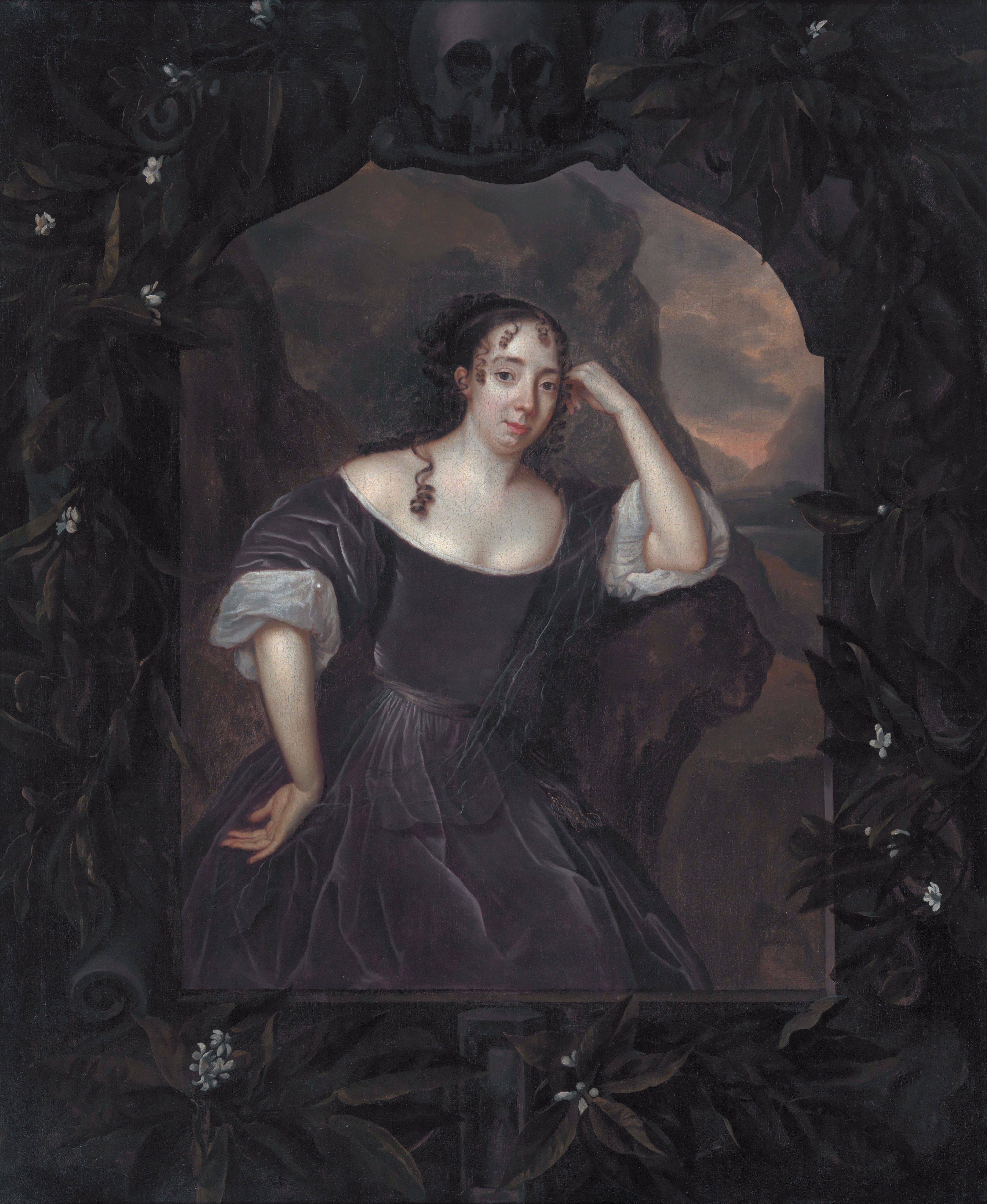 Albertine Agnes, Prinses van Oranje, Vorstin van Nassau-Dietz (1634-1696) oil on canvas 106 x 87 cm circa 1665